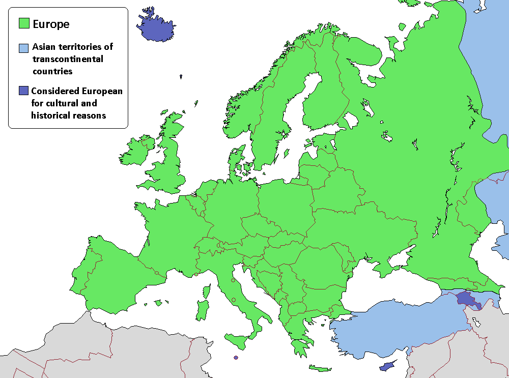 Political map of Europe following the Kura River border delineation. States that claim land geographically in Europe (excluding overseas possessions) Asian territories of transcontinental states States with a jurisdiction falling entirely outside of Europe's geographic boundaries but often considered European due to cultural, historical, and political reasons